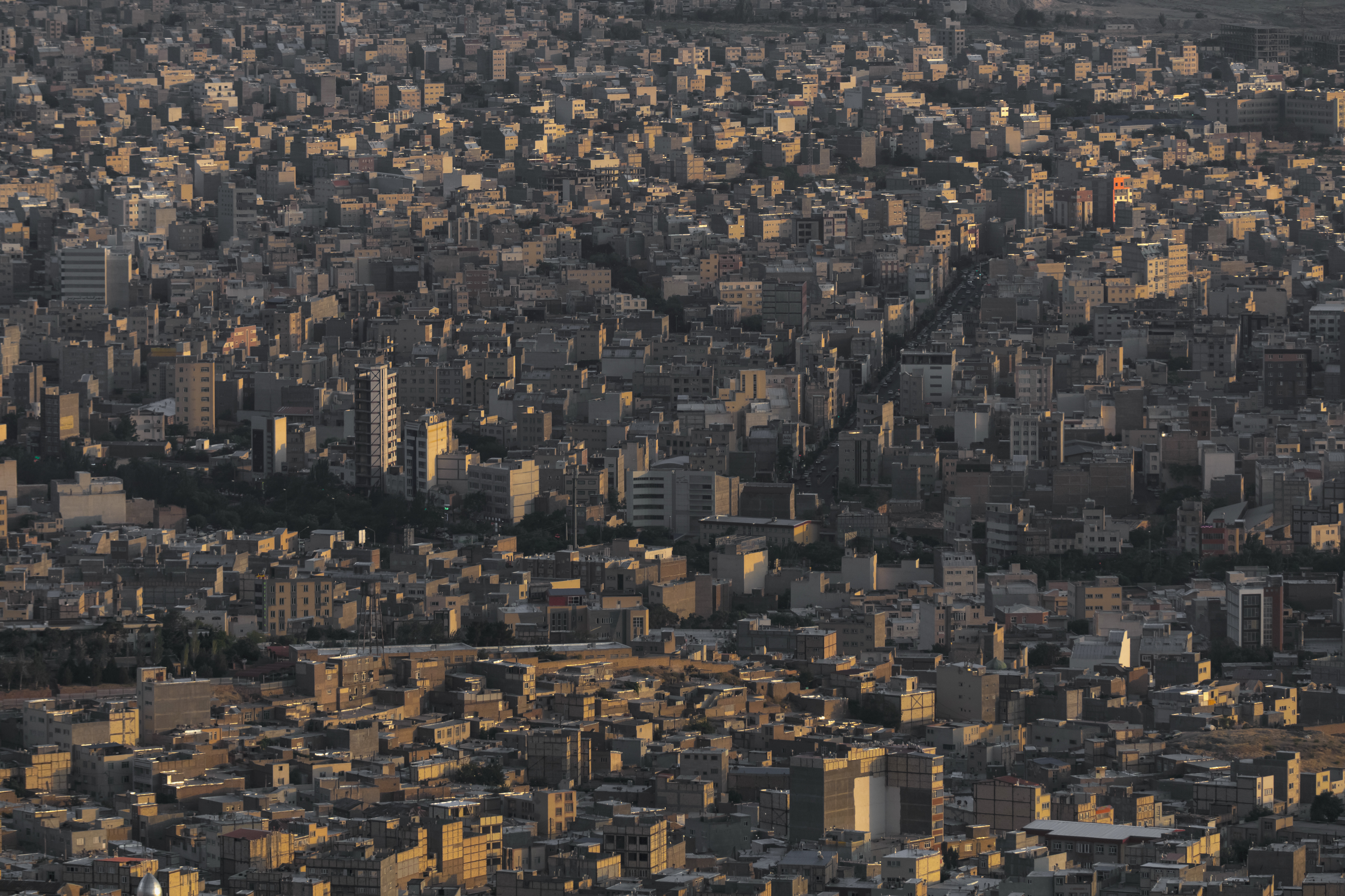 Tabriz is the most populous city in northwestern Iran, one of the historical capitals of Iran and the present capital of East Azerbaijan Province.